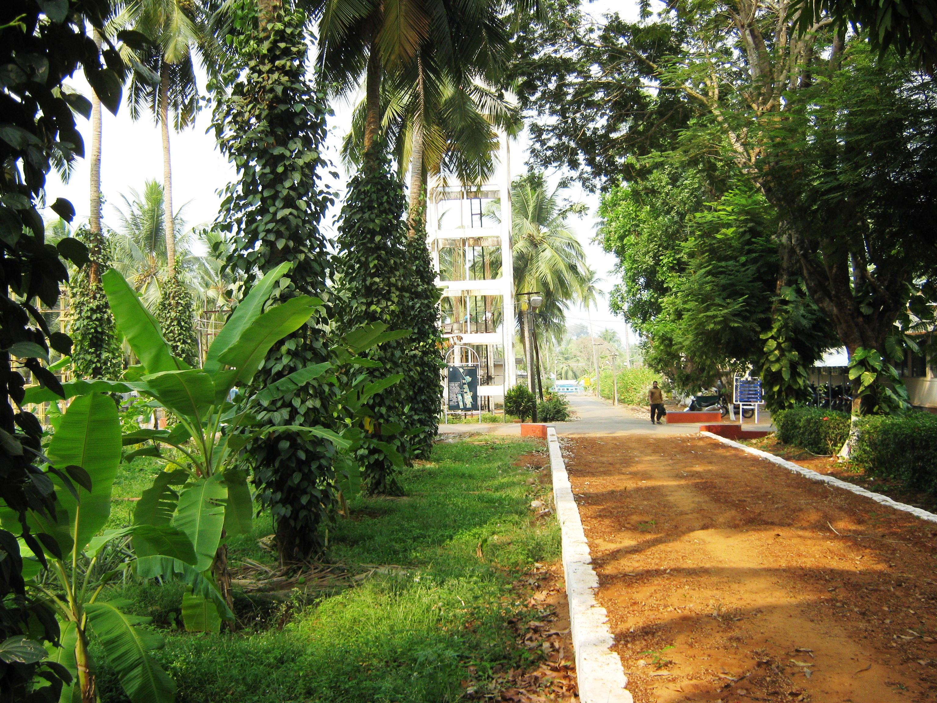 Central Plantation Crop Research Institute, Kasargod, Kerala, India.